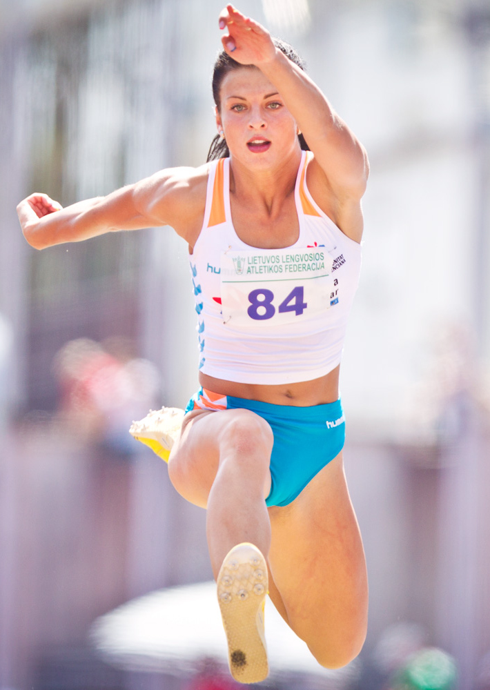 Dovile Dzindzaletaite at 2014 Lithuanian Championships in Athletics